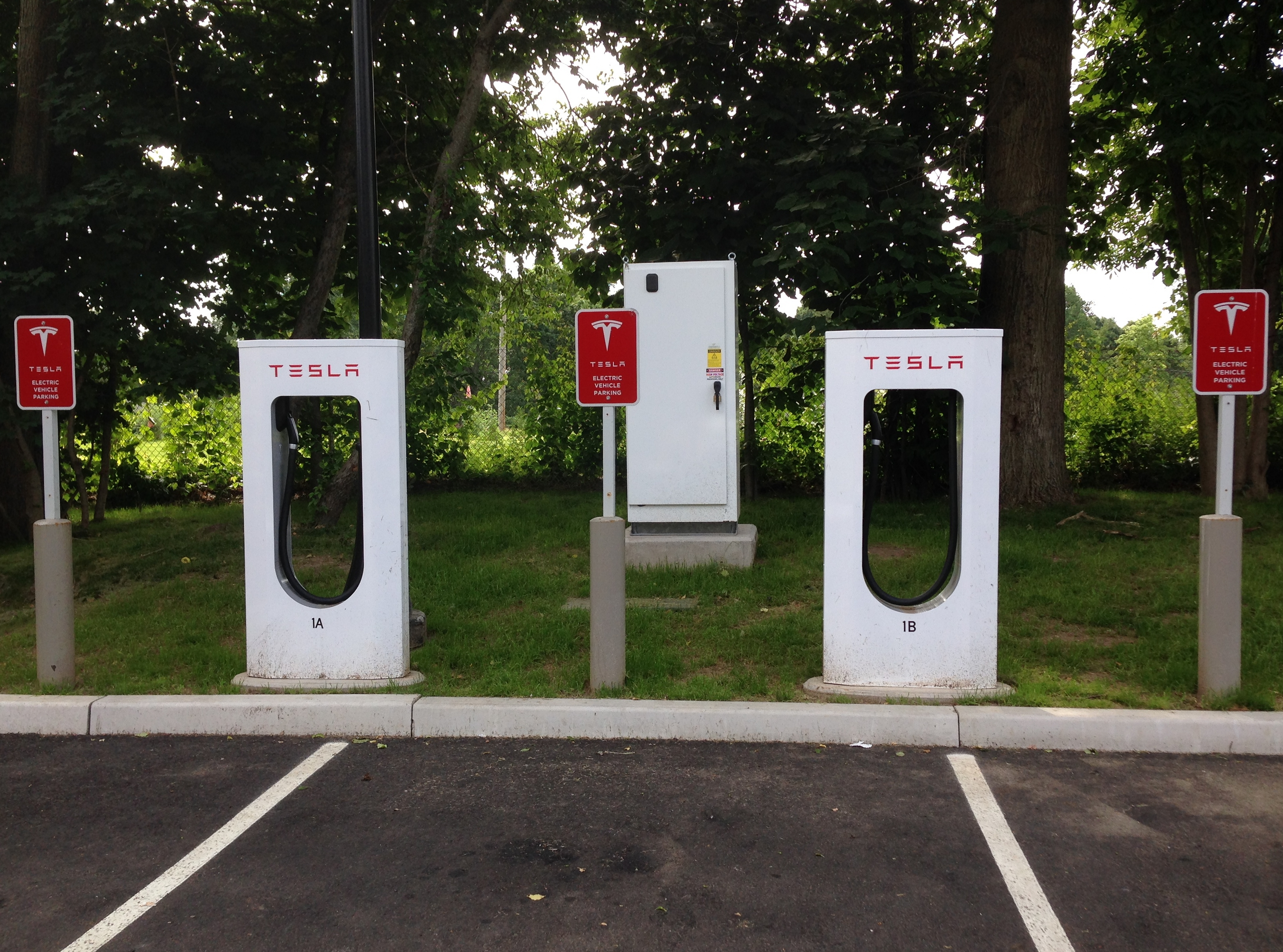 Tesla Greenwich North Supercharger Station in a rest area of Merritt Parkway in Greenwich, Connecticut